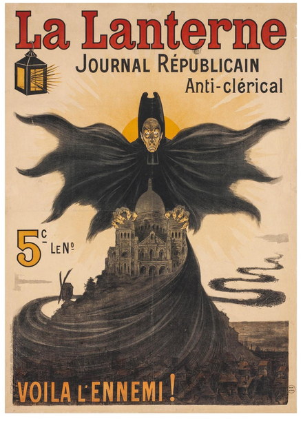 La Lanterne. Journal républicain anti-clérical. Voilà l'ennemi, poster by Eugène Ogé.